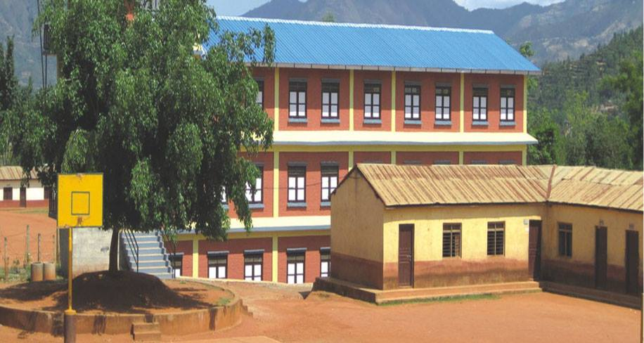 Public school under goverment of Nepal located in panchkhal municipality kavre Nepal.